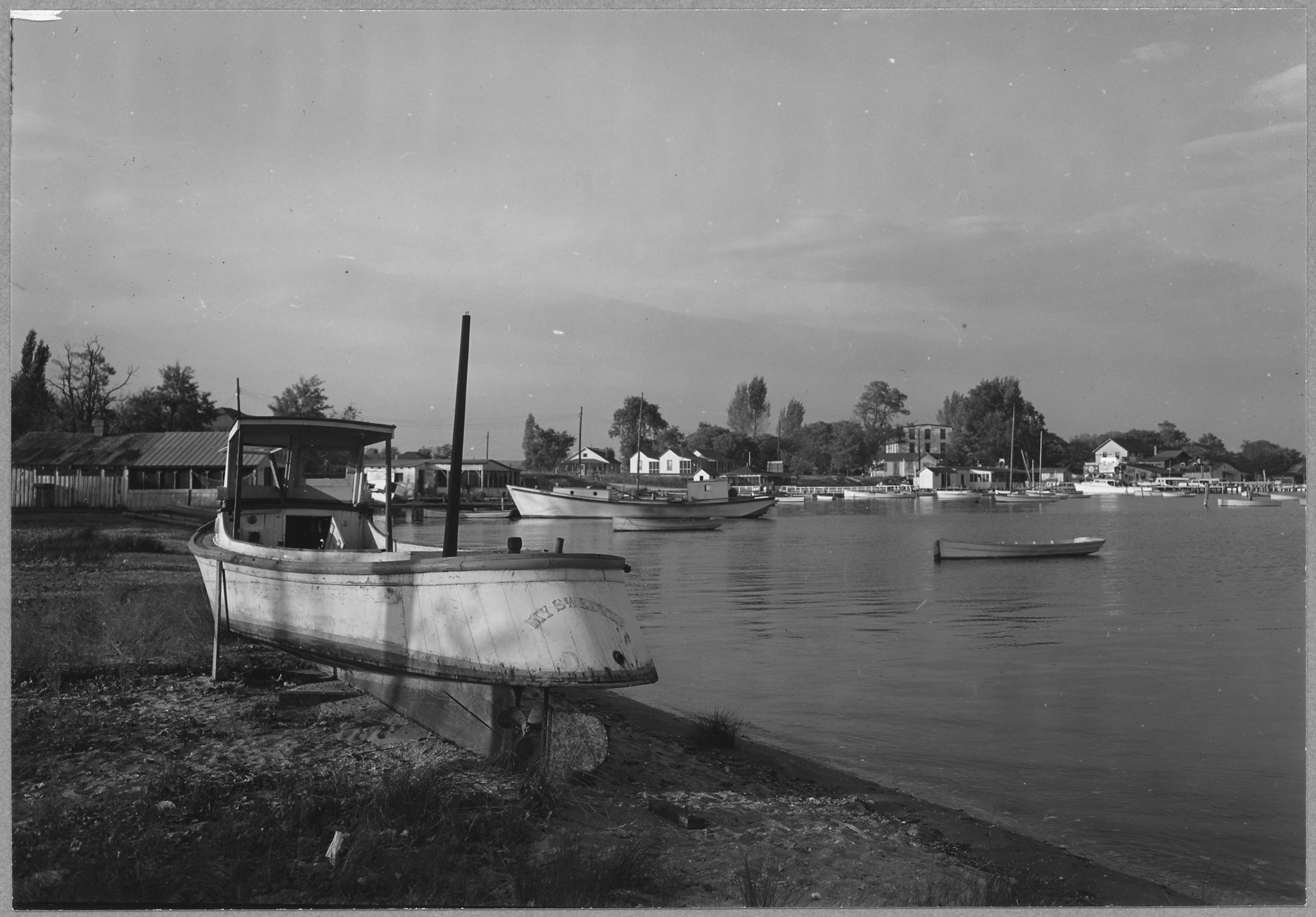 Scope and content: Full caption reads as follows: Charles County, Maryland. Oyster boats and pleasure crafts docked in the Patuxent River at Benedict. Oystering and fishing are primary economic enterprises here.